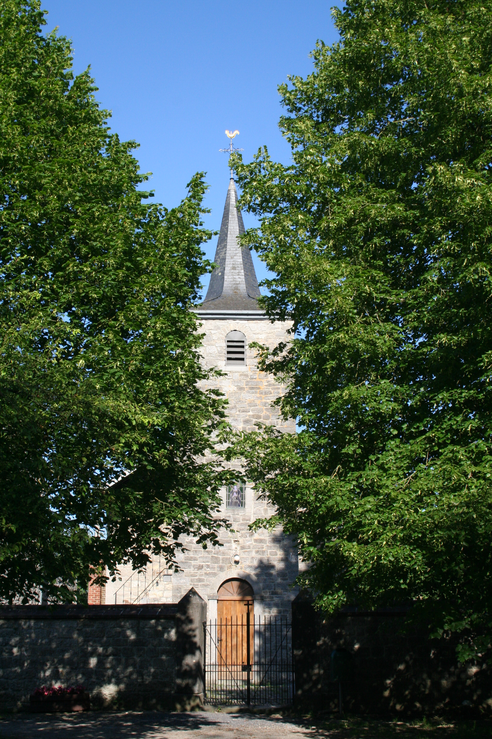 Belvaux (Belgium), the St. Laurent chapel.